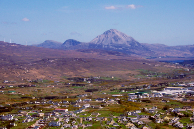 Preparing to land at Donegal Seen from the window of an Aer Arann plane is Gweedore in the foreground with the basaltic Mount Errigal in the background.